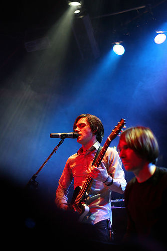 Bright Eyes at Kulturmejeriet in Lund